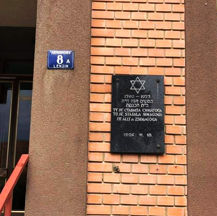 Memorial plaque: Synagogue in Ada, Serbia. The first Synagogue was built in 1790, and the building was demolished in the early 70s' of the 20th century